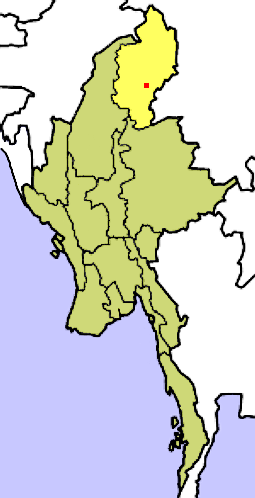 Location of Kachin State in Myanmar w/ capital.